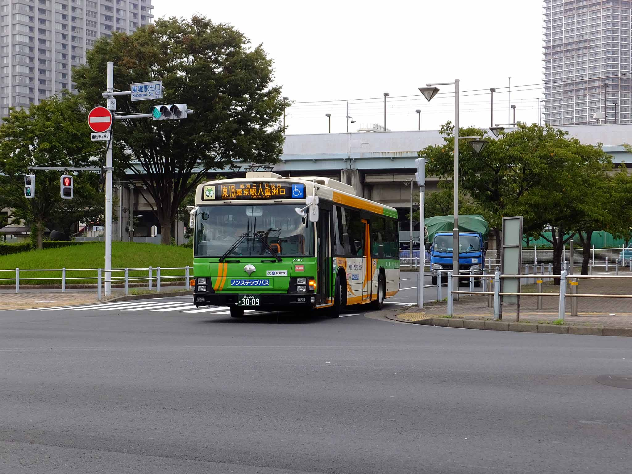 Toei Bus "Higashi 15" Route, few buses through Shinonome Station and Tatsumi in the morning. Model: Isuzu Erga LV234 License plate: TKA200 KA3009 Place: Shinonome Station, Koto Ward, Tokyo Japan